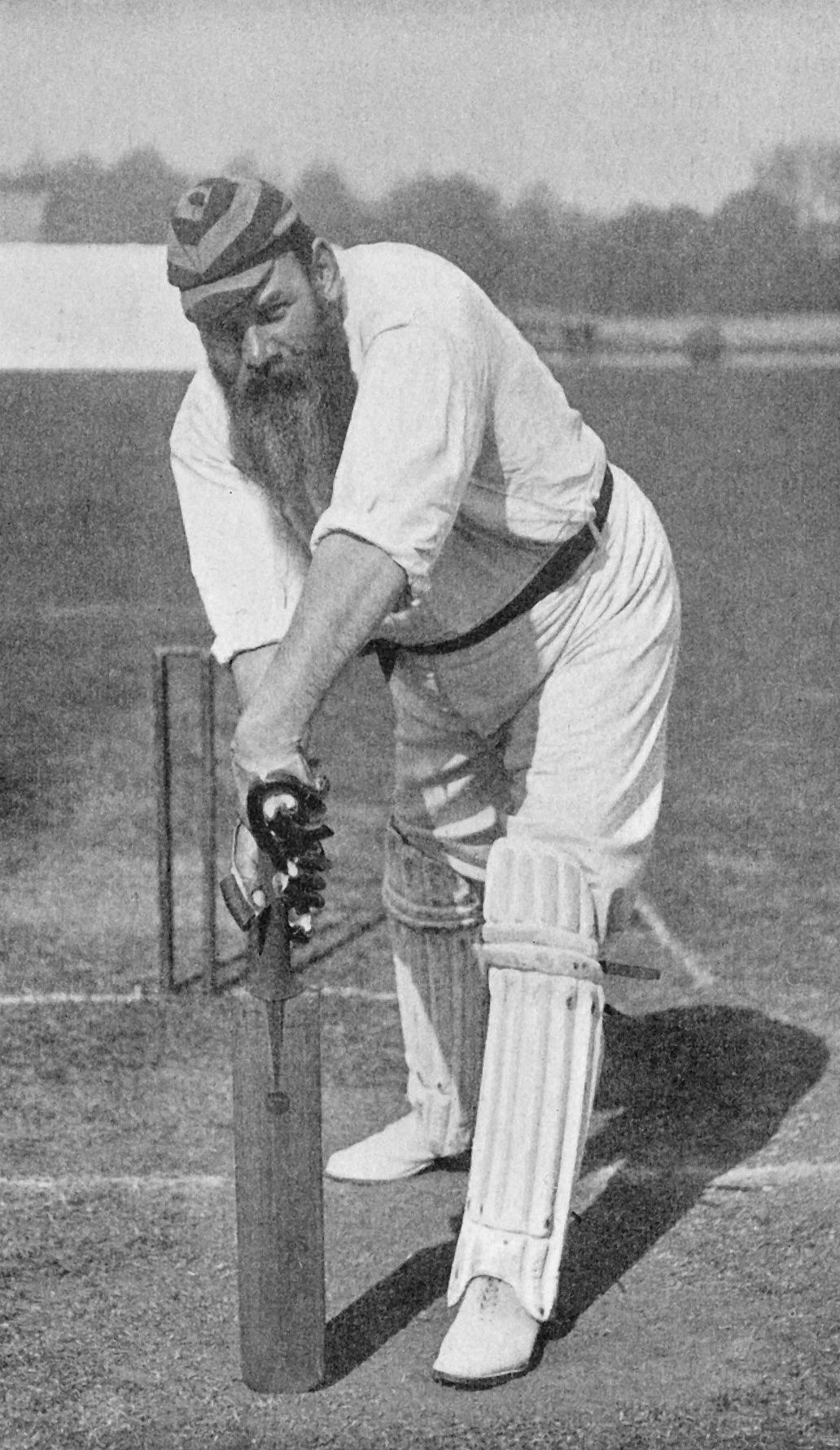 "W. G. Grace playing forward (as a defensive stroke)."